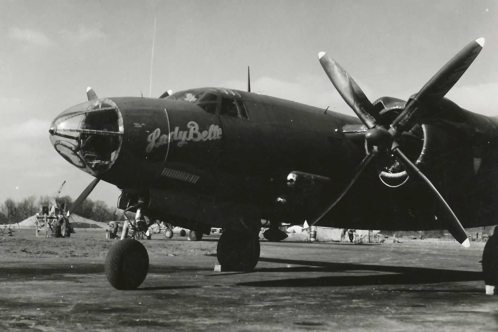 World War II plane flown by Col. Gerald E. Williams, commander of the 391st Bombardment group. The plane "Lady Belle" was named for his mother, Belle Williams